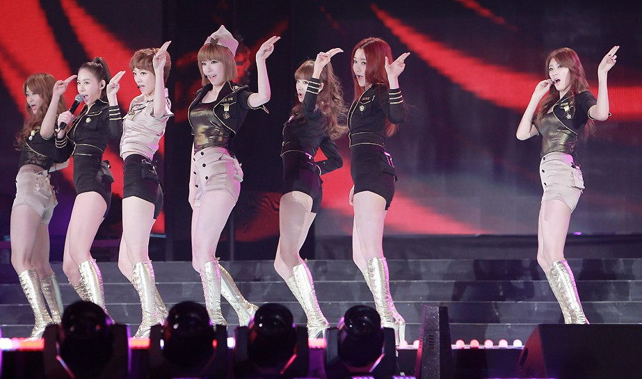 Nine Muses at K-Collection in Seoul, 2012